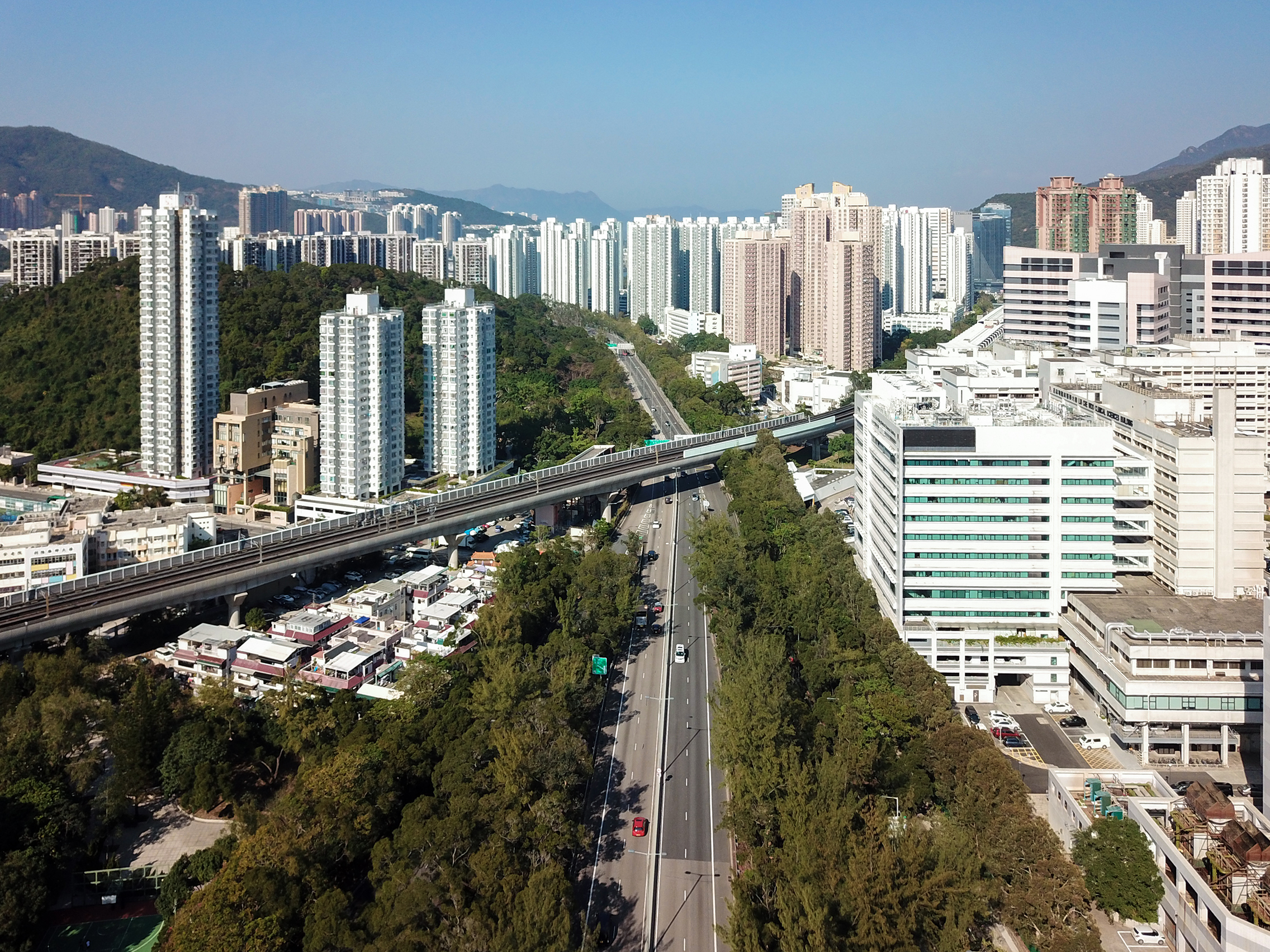 Sha Tin Road